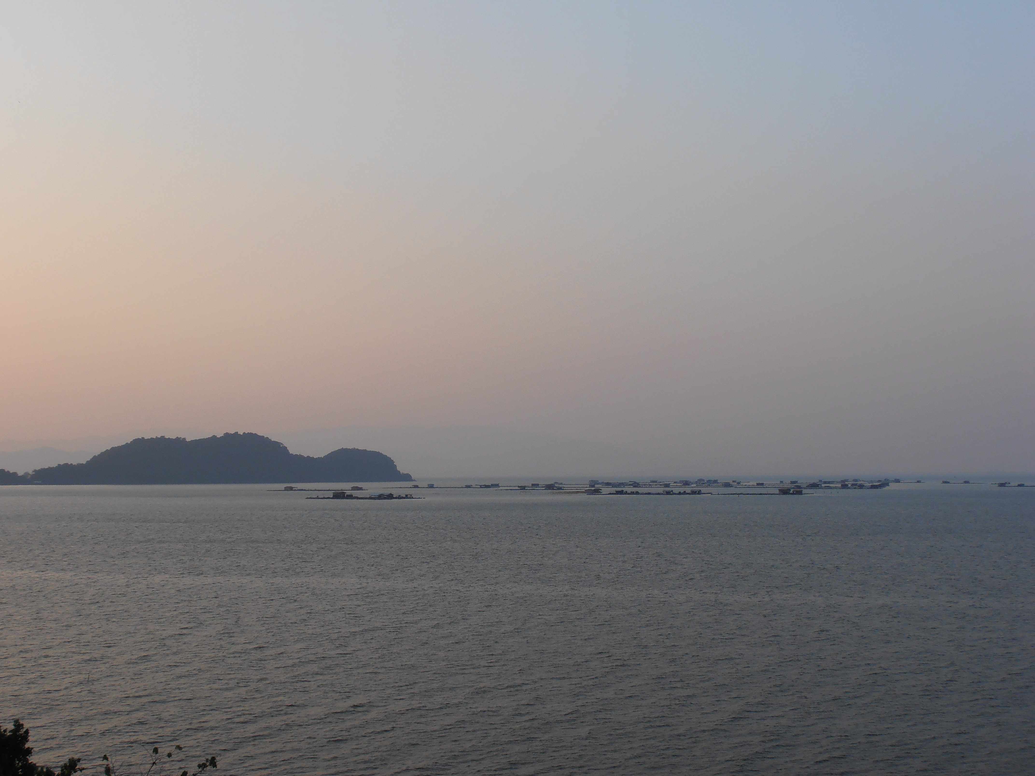 Gedung Island viewed from Batu Musang Jetty, Batu Kawan.